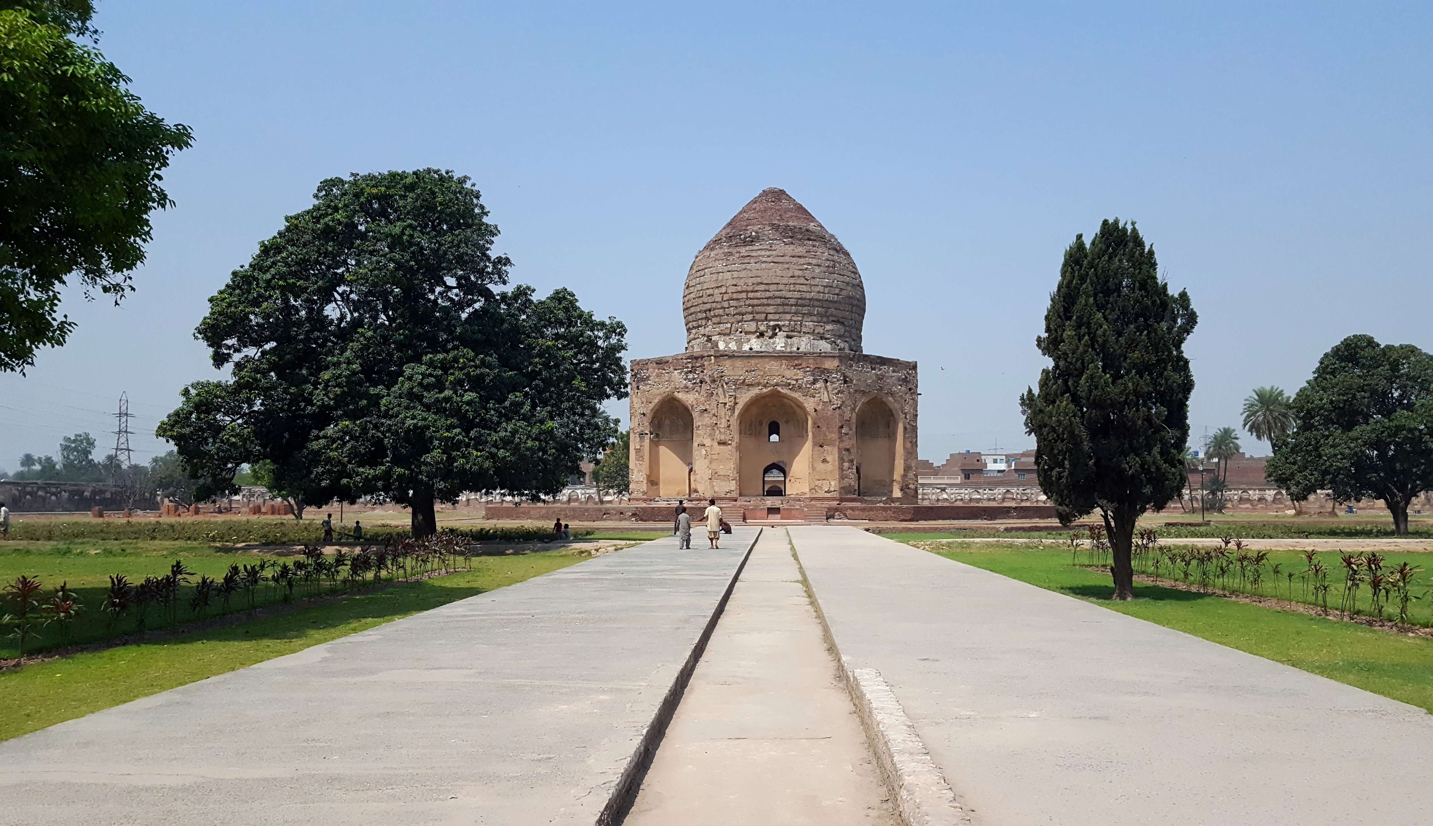 Tomb of Asif Khan This is a photo of a monument in Pakistan identified as the PB-43